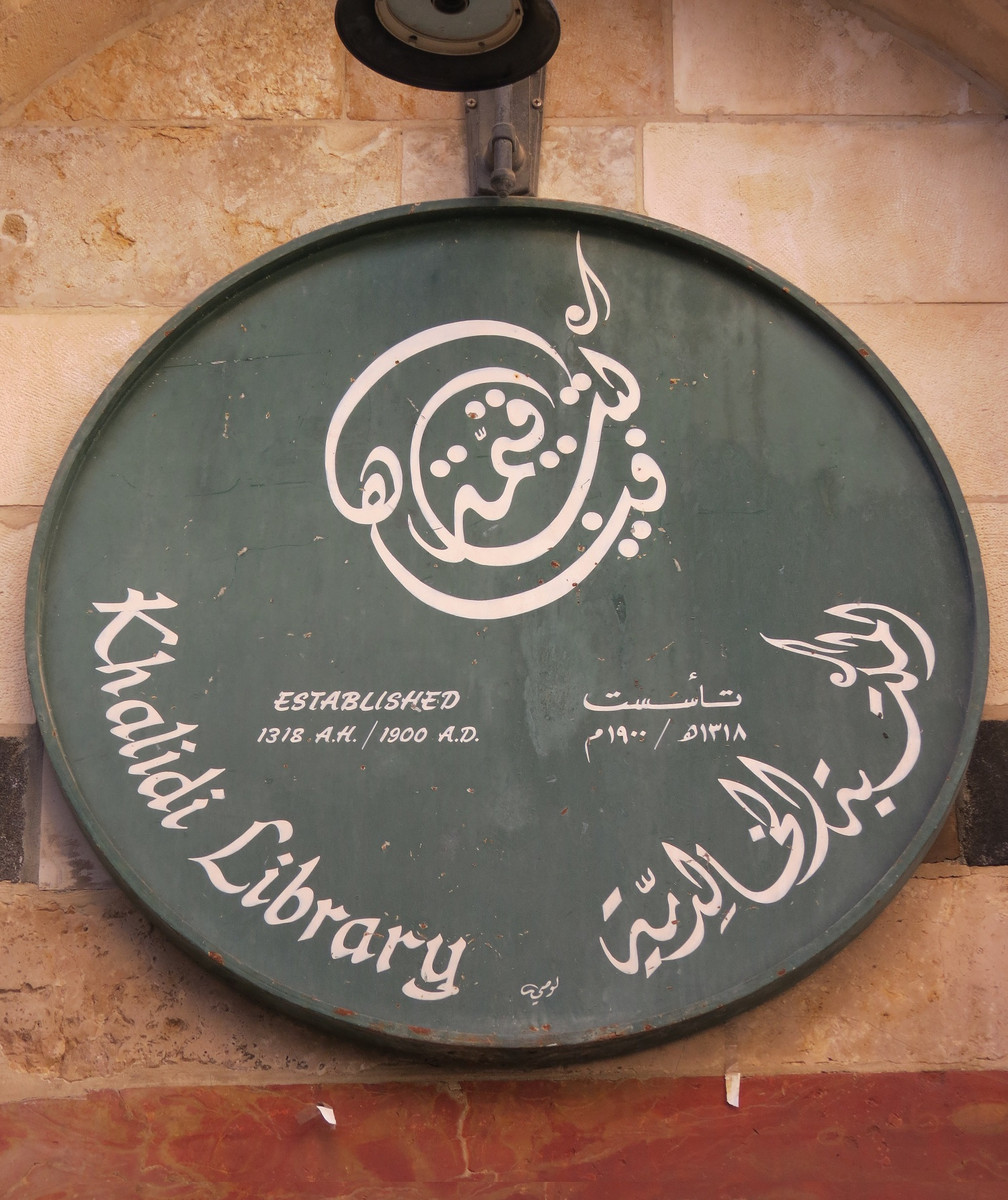 Inscription of years by A.H.&A.D. eras in English&Arabic